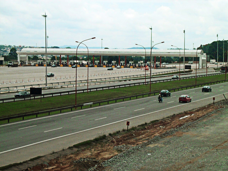 Tollbooths at Rodovia Castelo Branco in Barueri, São Paulo, Brasil.